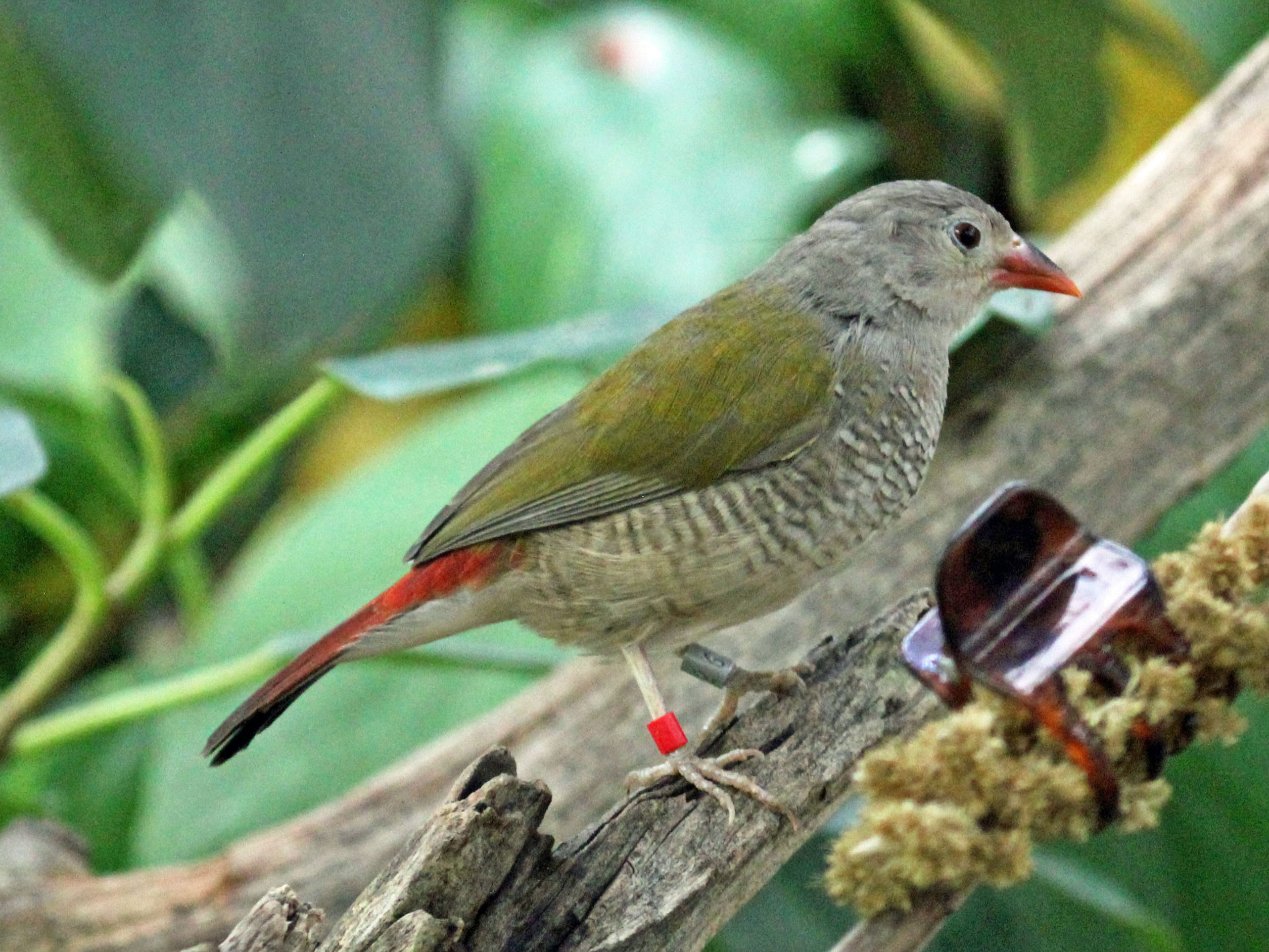 Green-winged Pytilia (Pytilia melba) - San Diego Zoo